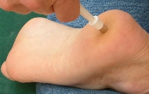 Small sample of foot